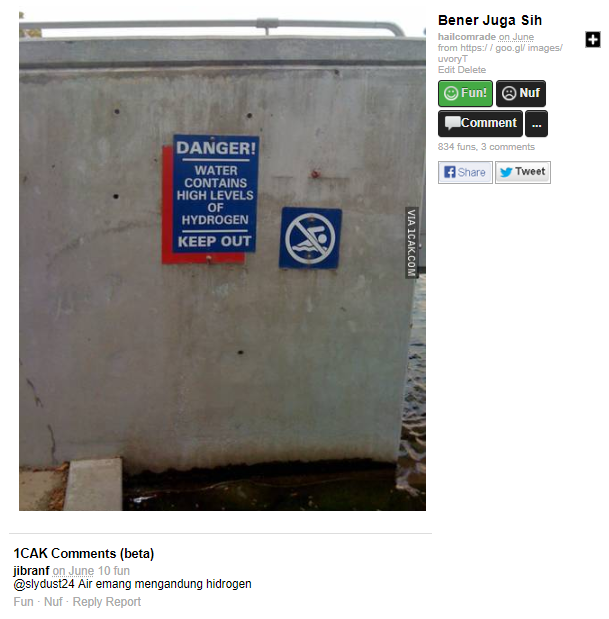 An image posted in 1cak.